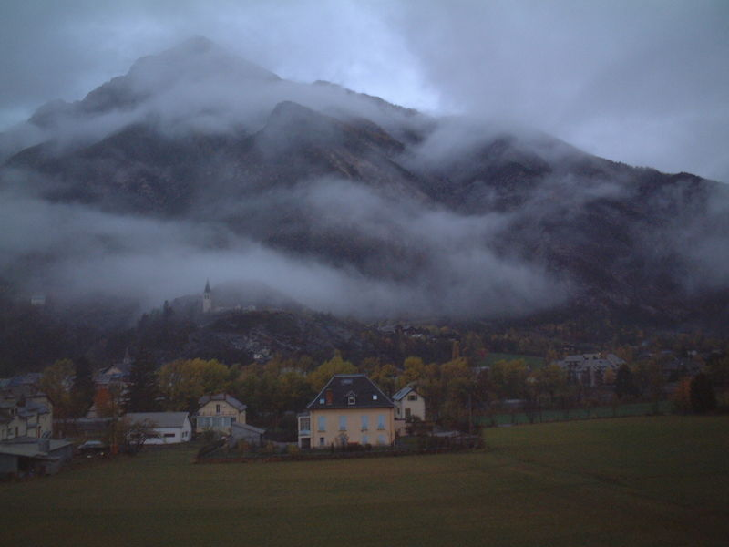 Jausiers, Alpes, France. I made this photo in october 2004.